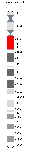 This image is per